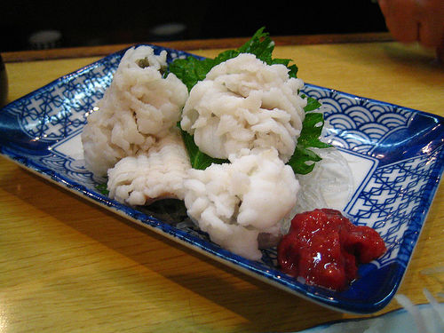 hamo(pike eel) served with pickled plum.